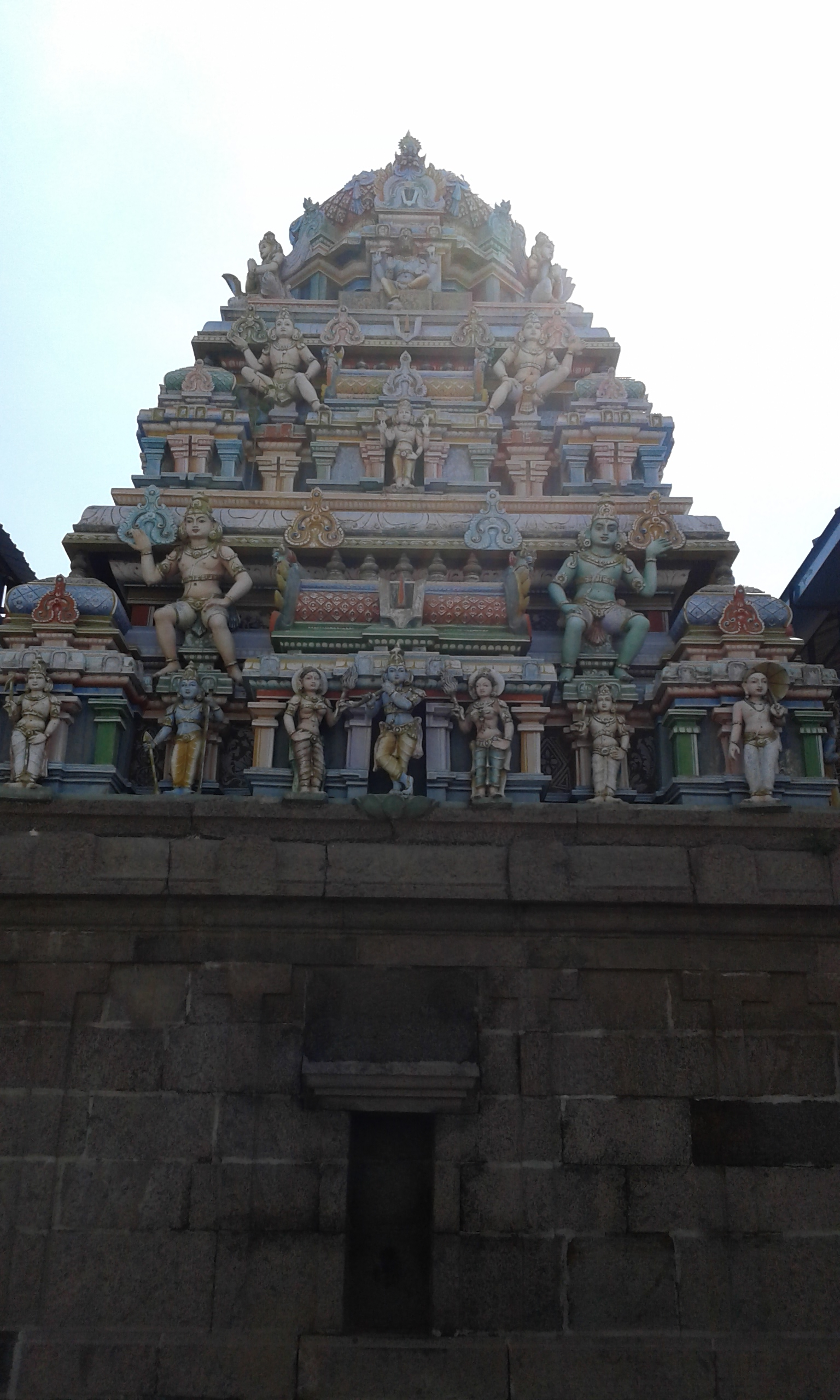 Adikesava Perumal temple, Mylapore